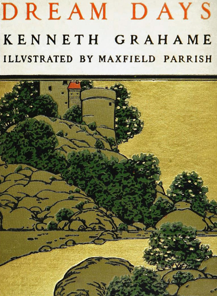 Cover illustration from Dream Days.